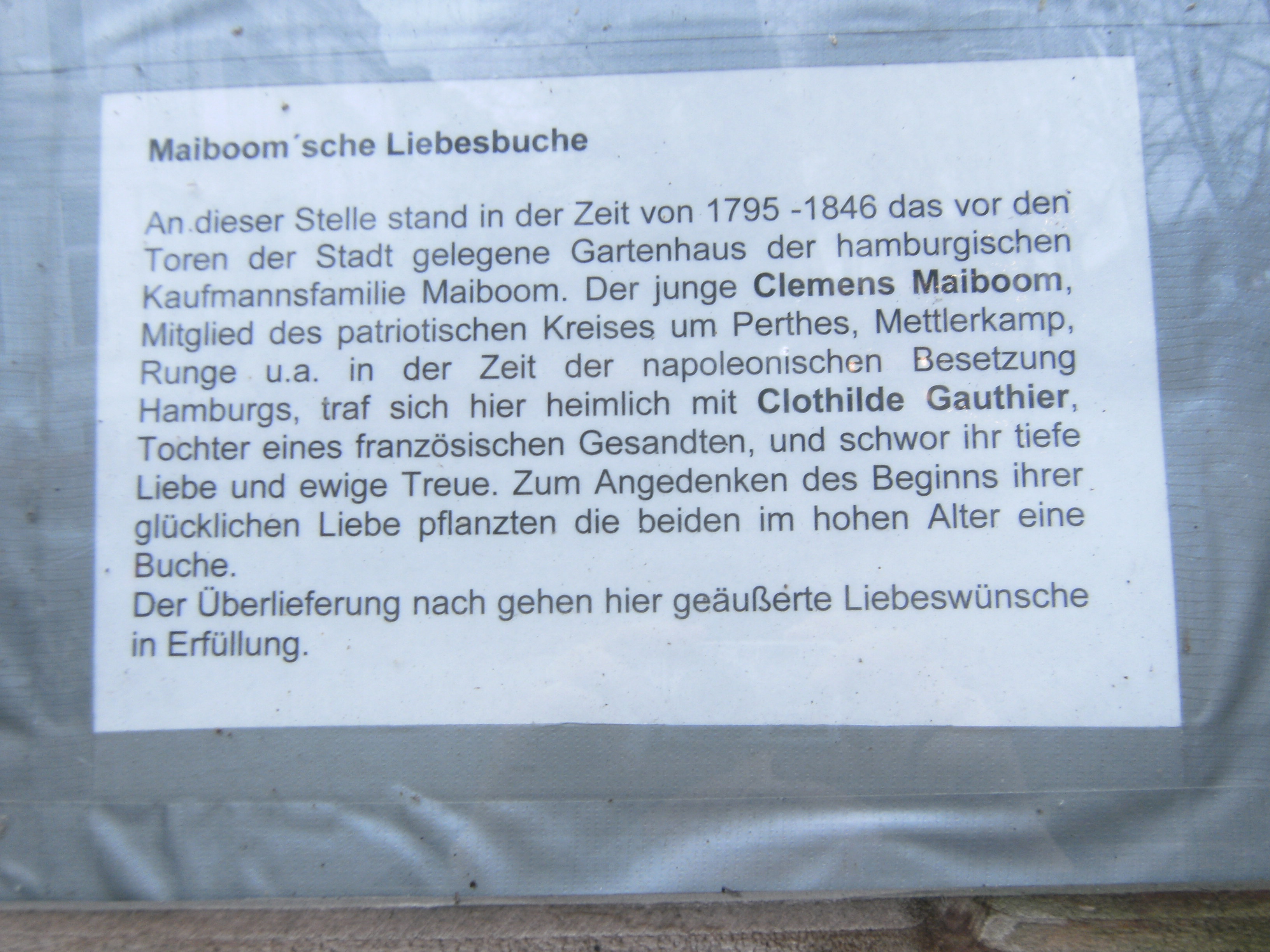 A beech tree in Hamburg near Kuhmühlenteich at Eilenau/Lessingstraße called "Maiboom'sche Liebesbuche" where secret whishes and hopes of love are posted. Plaque.